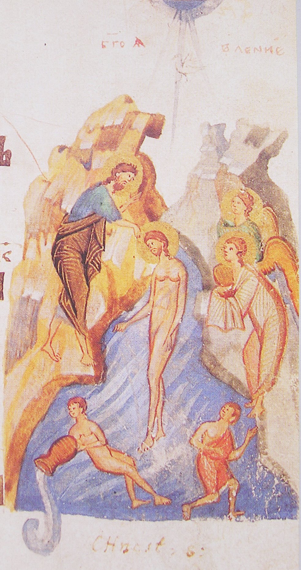 Kievan Psalter